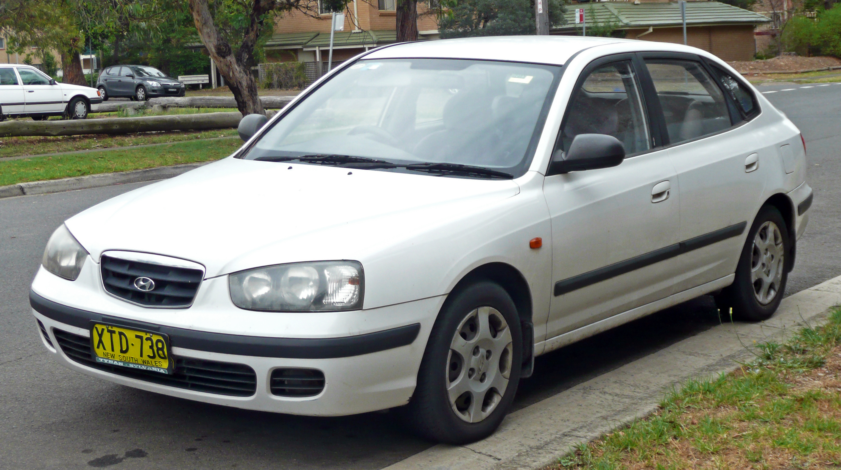 2000–2003 Hyundai Elantra (XD) GL hatchback. Photographed in Sutherland, New South Wales, Australia.